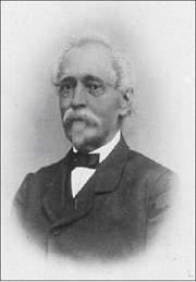 Johann Eugen Rosshirt (1795–1872), German physician